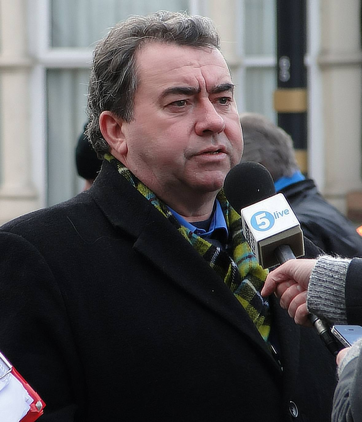 BBC broadcaster Jonathan Pearce outside West Ham United's Boleyn Ground before their game against Manchester City, 11 December 2010.